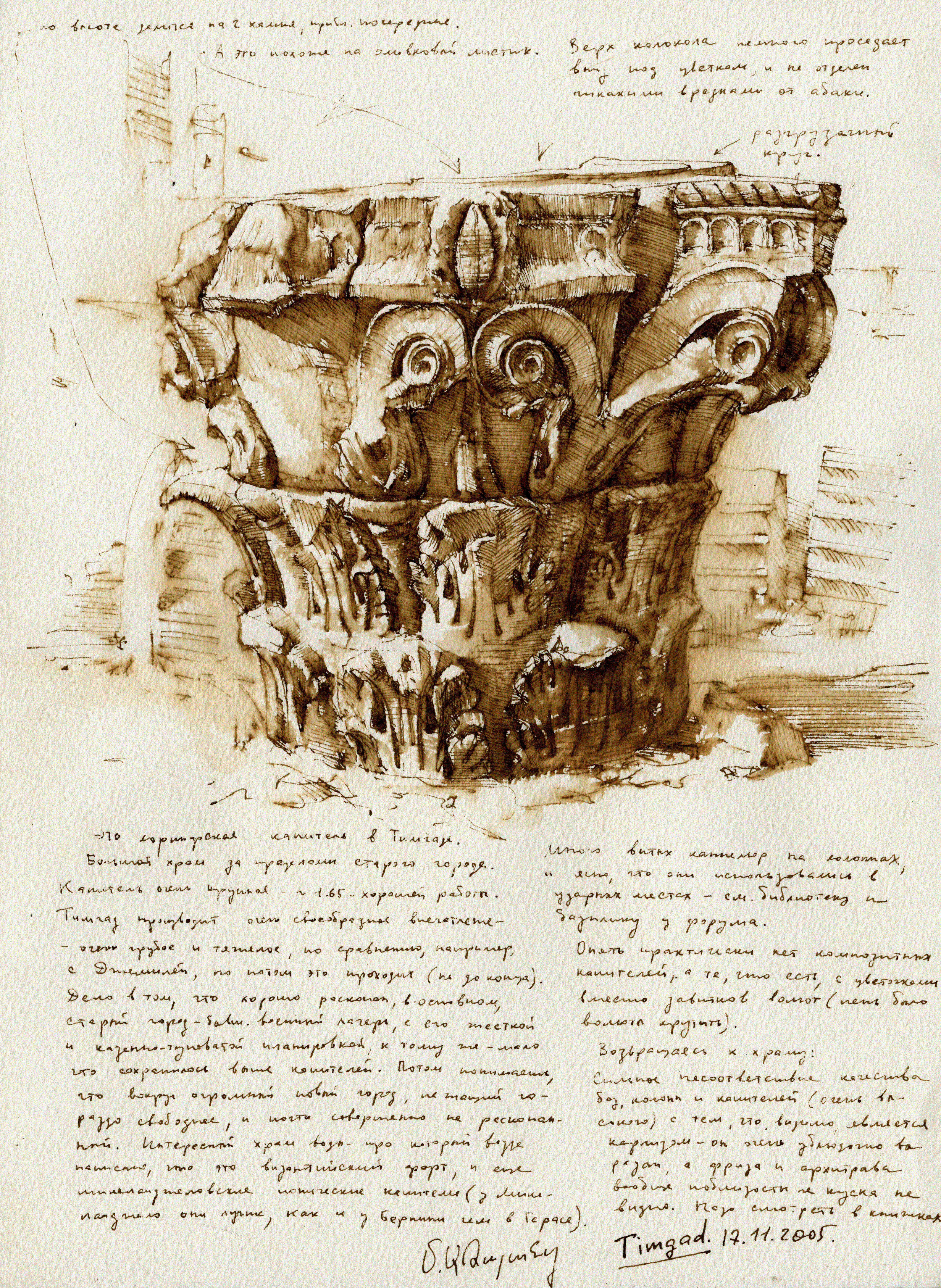 Timgad